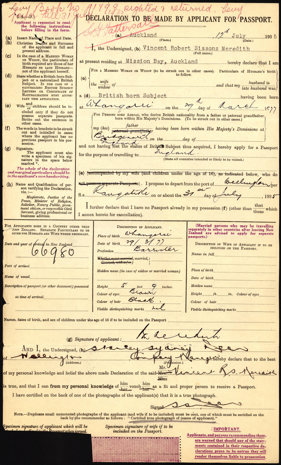 Archives New Zealand Reference: ACGO 8333 IA1 1350 / 15/11/59182